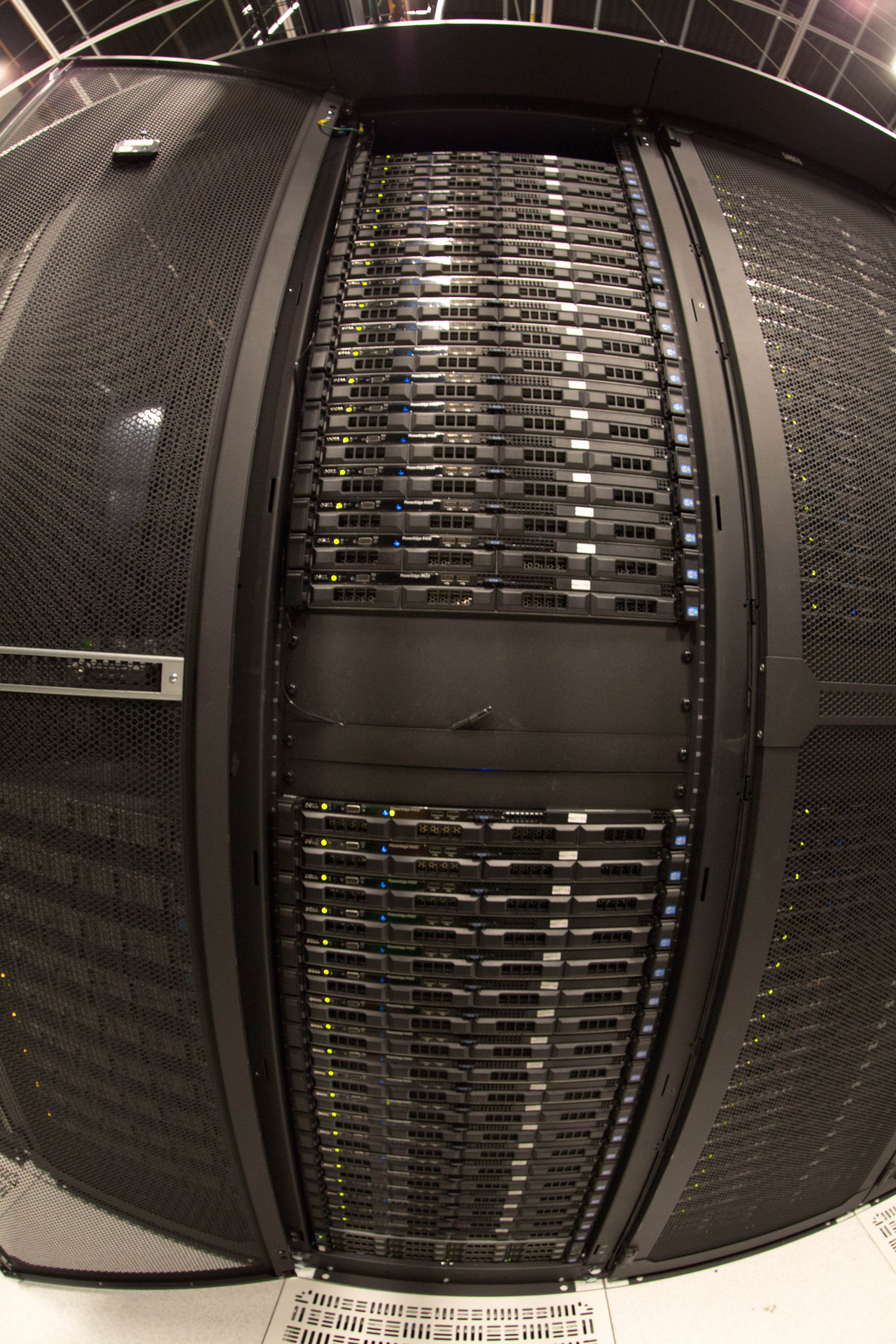 Wikimedia Foundation Servers 2015